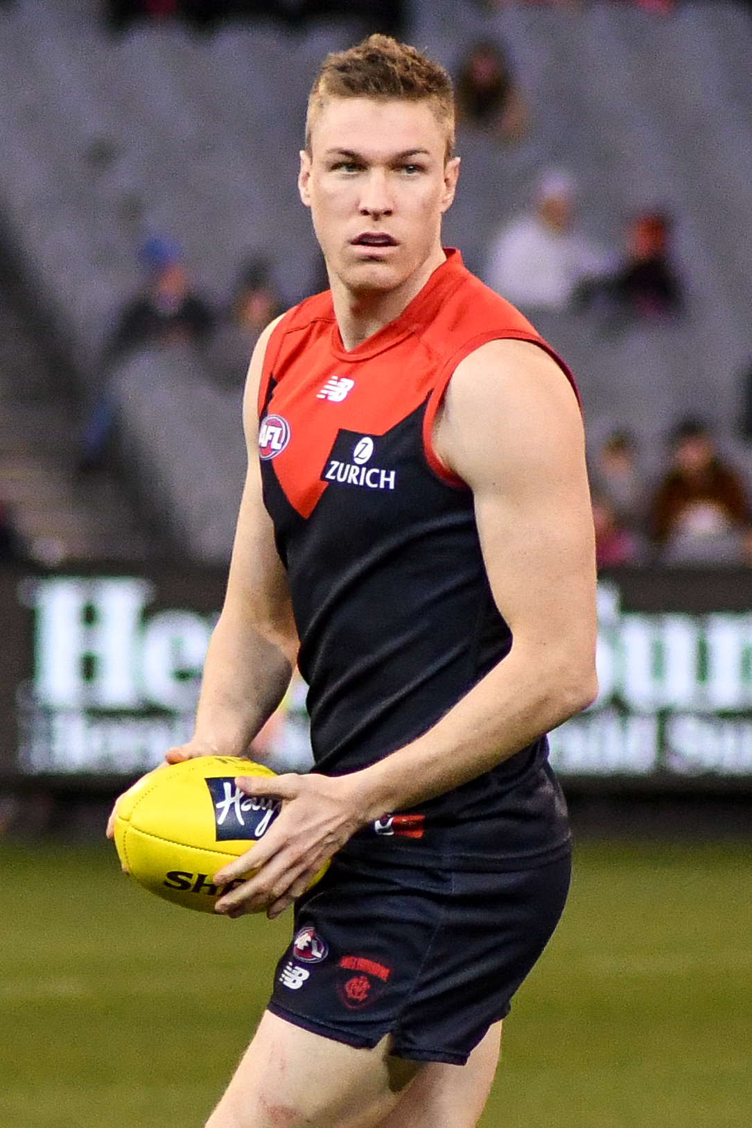 Tom McDonald of Melbourne during the 2018 AFL round 20 match between Melbourne and Gold Coast at the Melbourne Cricket Ground on Sunday, 5 August 2018 in Melbourne, Victoria.